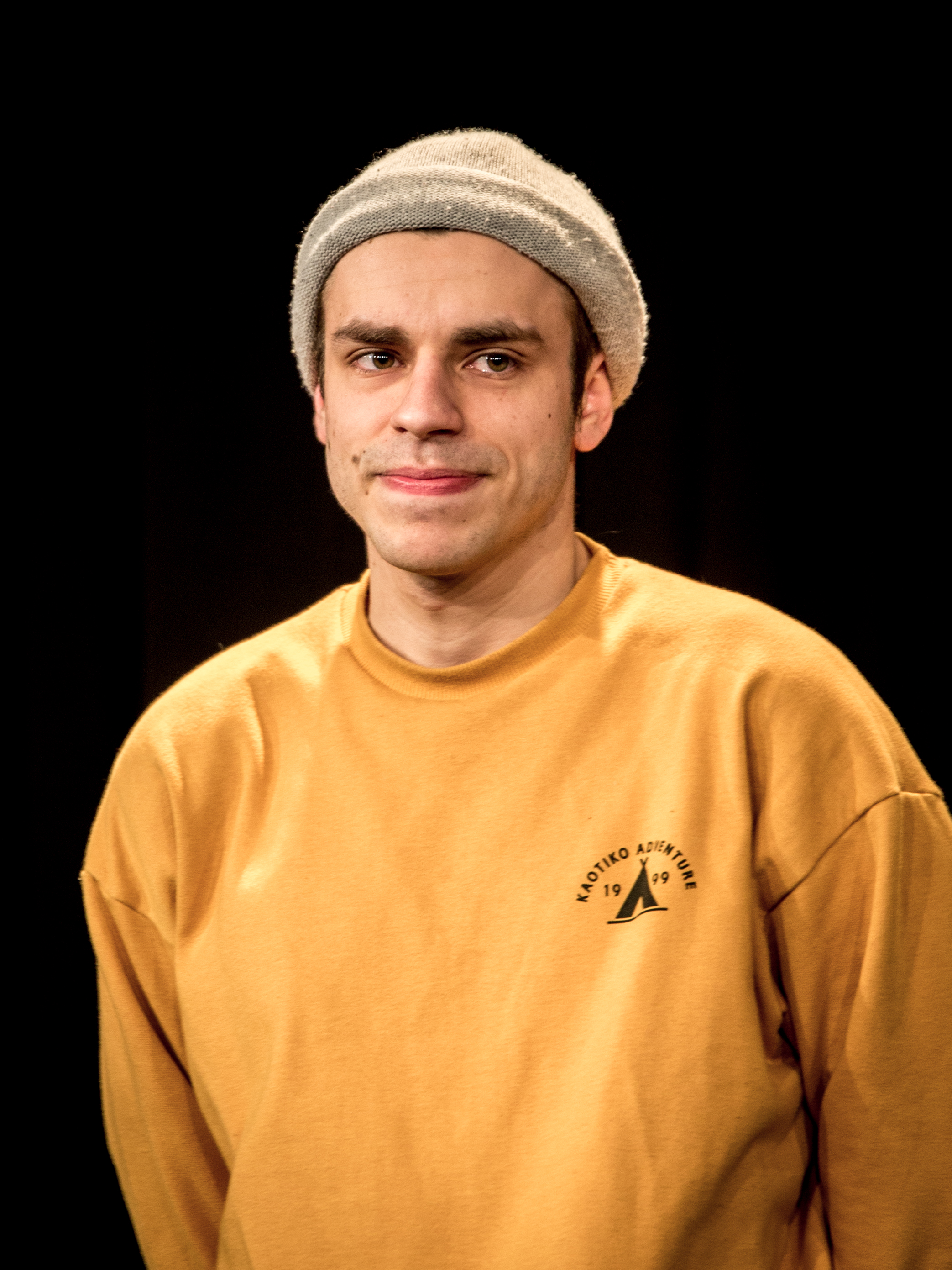 German slam poet Jean-Philippe Kindler at the Internationale Kulturbörse Freiburg 2018